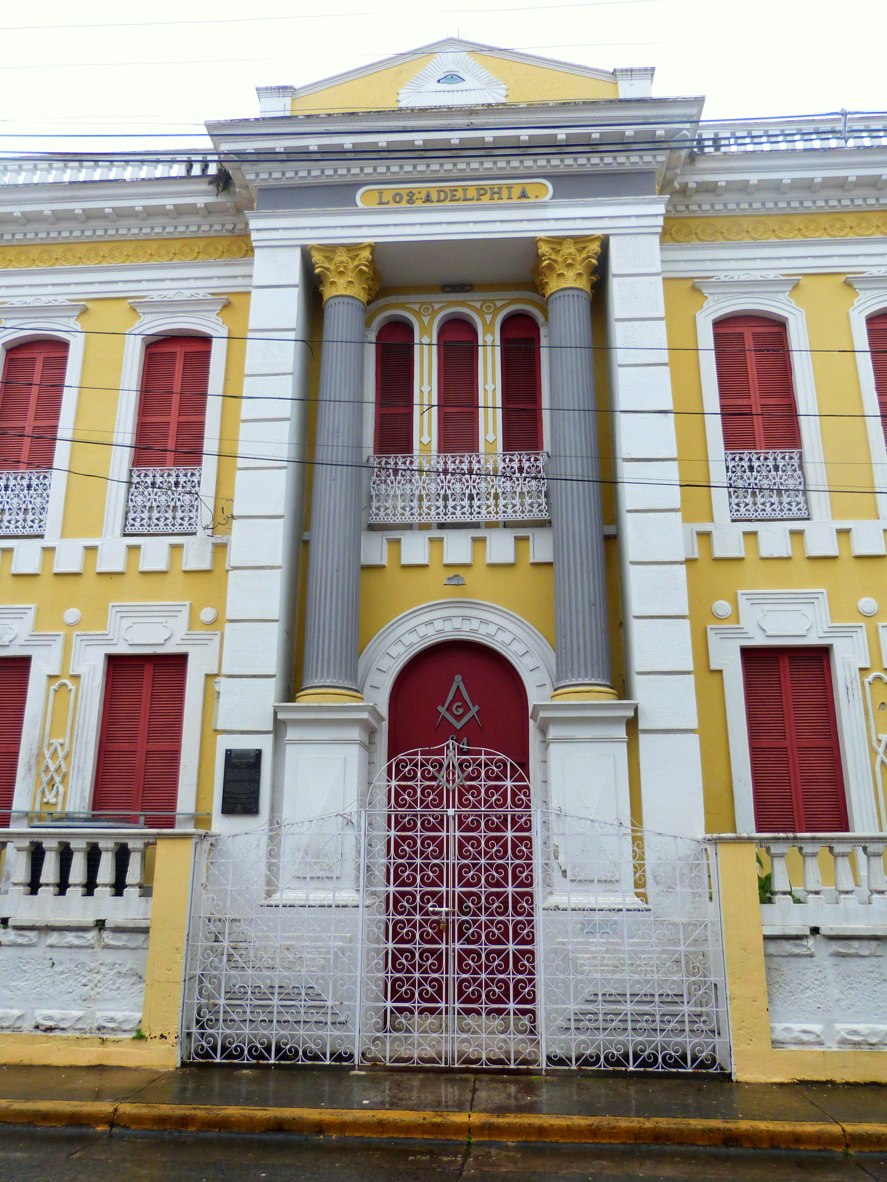 The historic Logia Adelphia (built 1912), located at Calle del Sol #64E in Mayagüez, Puerto Rico, is listed on the U.S. National Register of Historic Places.